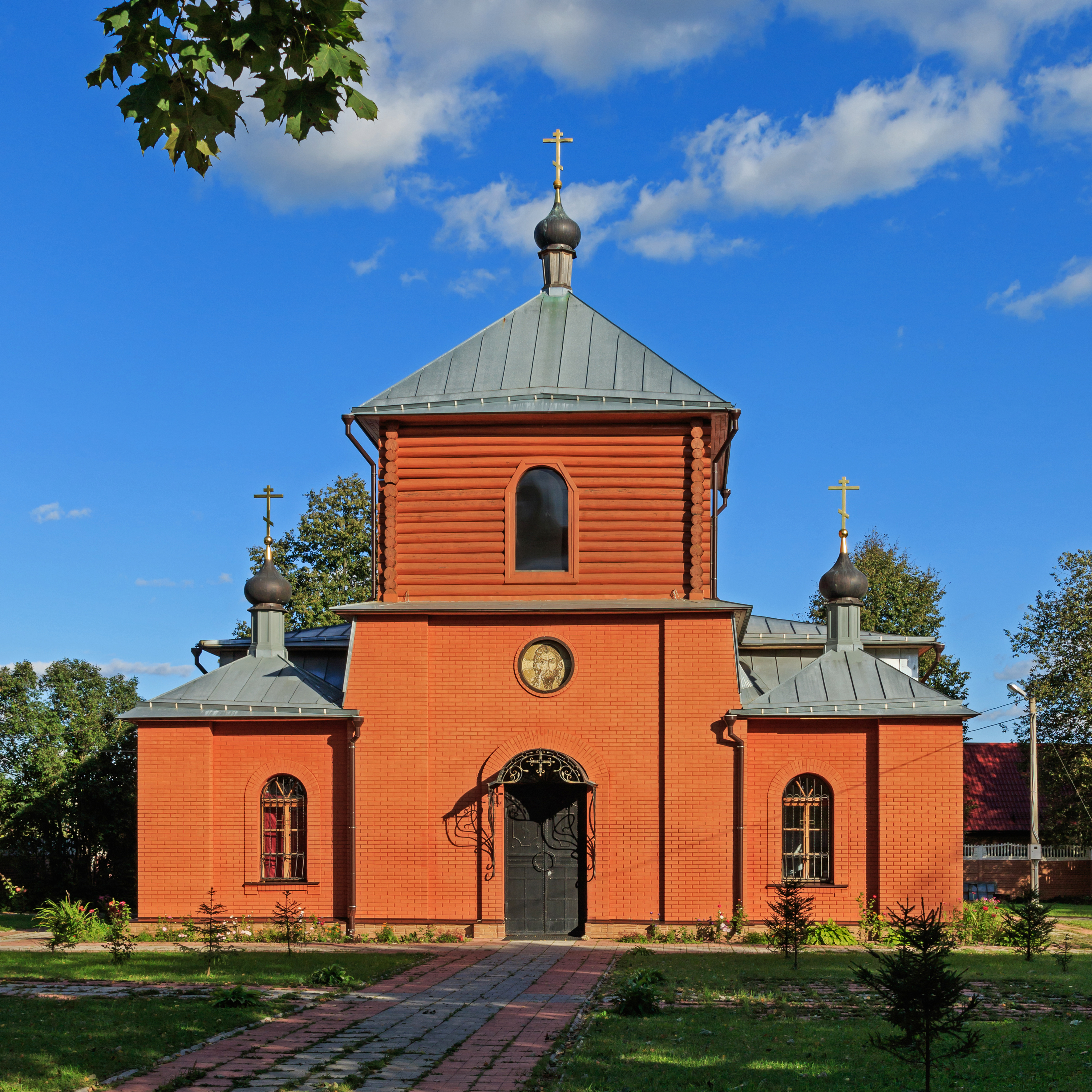 Epiphany Church in Bogoyavleniye, Troitsky District. Moscow, Russia.